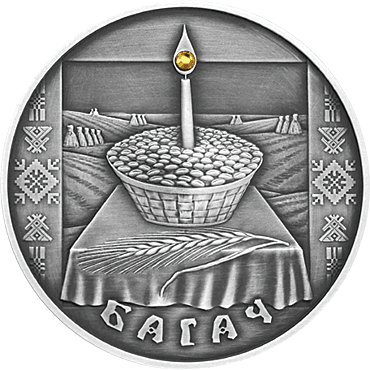 "Bahach", Silver commemorative coins, denomination: 20 rubles